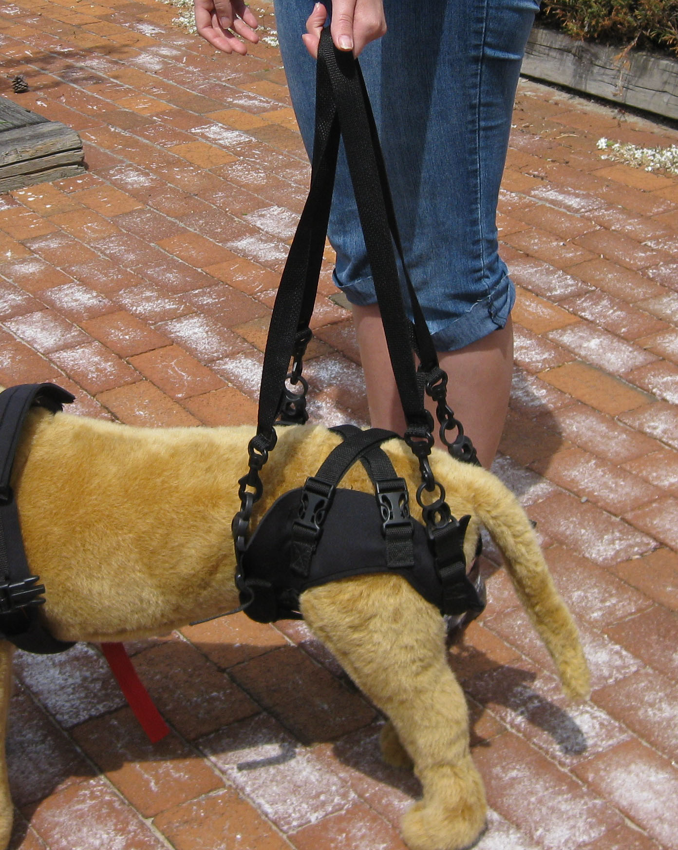 Dogs with injuries for illnesses that affect their mobility use this rear support harness.